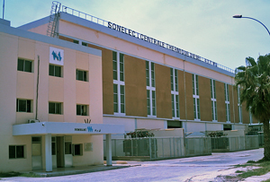 ndb power plant